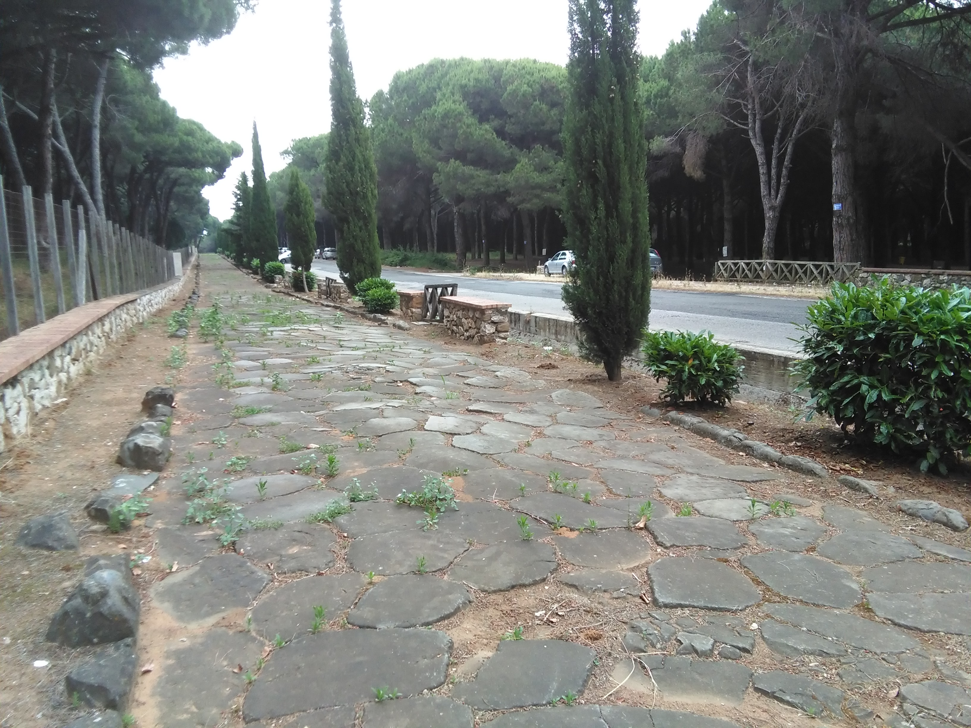 Nettuno, neighborhood "La Campana": ancient roman road restored in 2002, which the scolar G. M. De Rossi has identified with the Lanuvium-Antium road (Chiara Conte, Il territorio in età romana, in Giancarlo Baiocco et al., Nettuno. La sua storia, Pomezia, Arti grafiche s.r.l., 2010, p. 30).